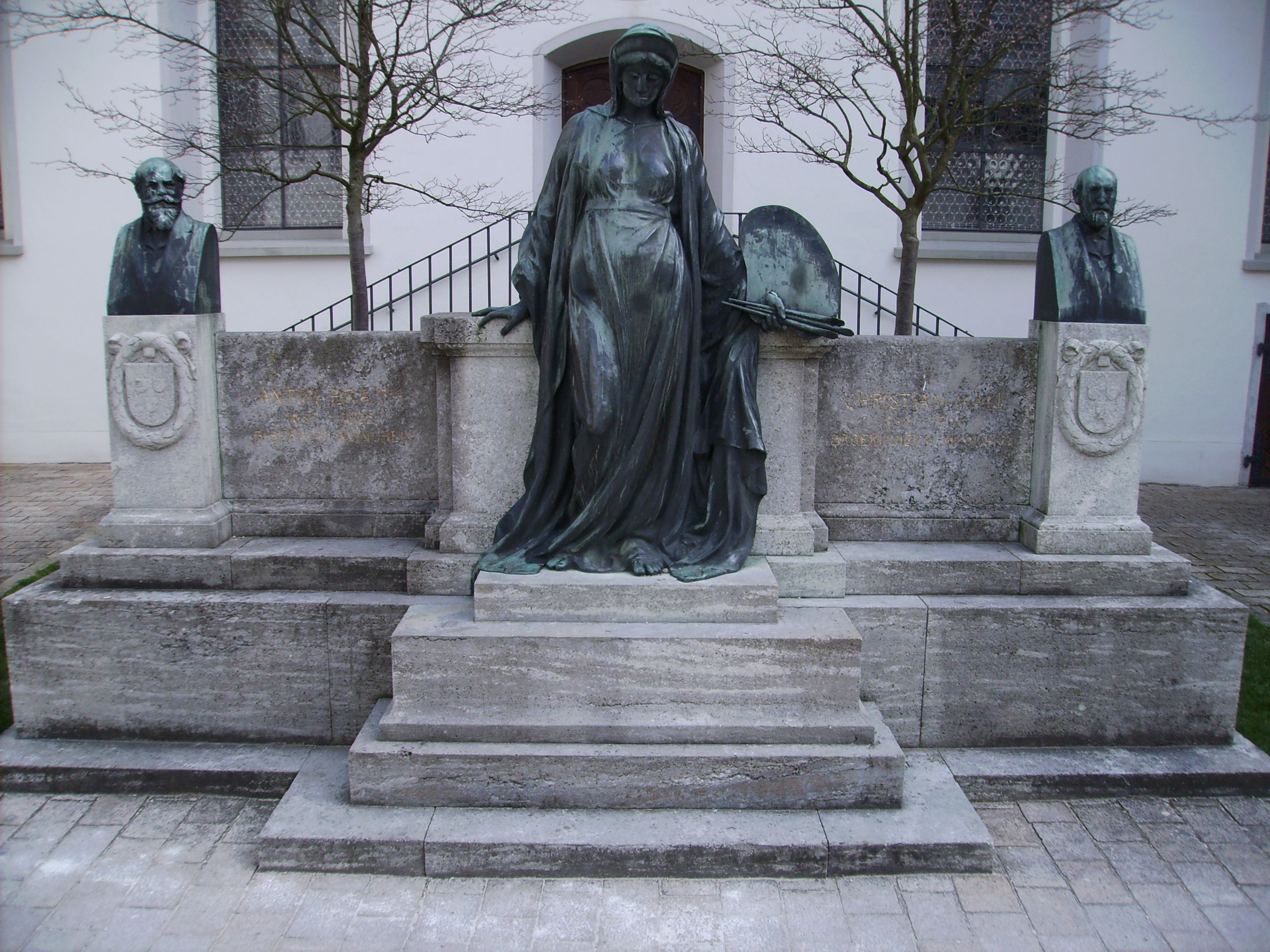 Memorial in front of the Braith-Mali-Museum in Biberach, Germany